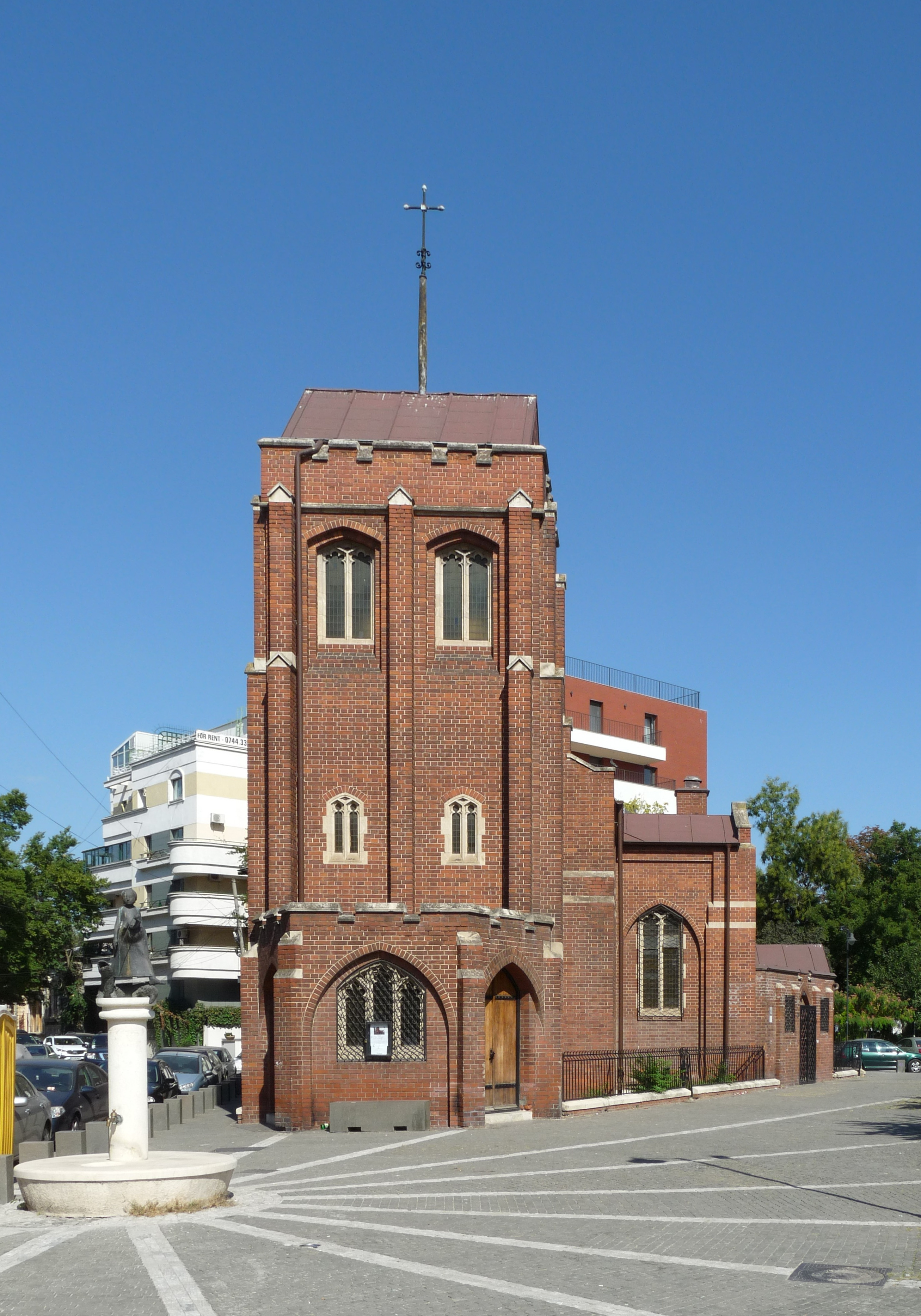 Anglican church of the Resurrection in Bucharest, RomaniaRomână: Biserica anglicană Învierea din București, România